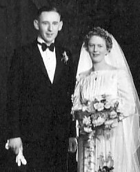 Murray Louis Tyrrell and Ellen St Clair Greig, wedding photo, 6 May 1939